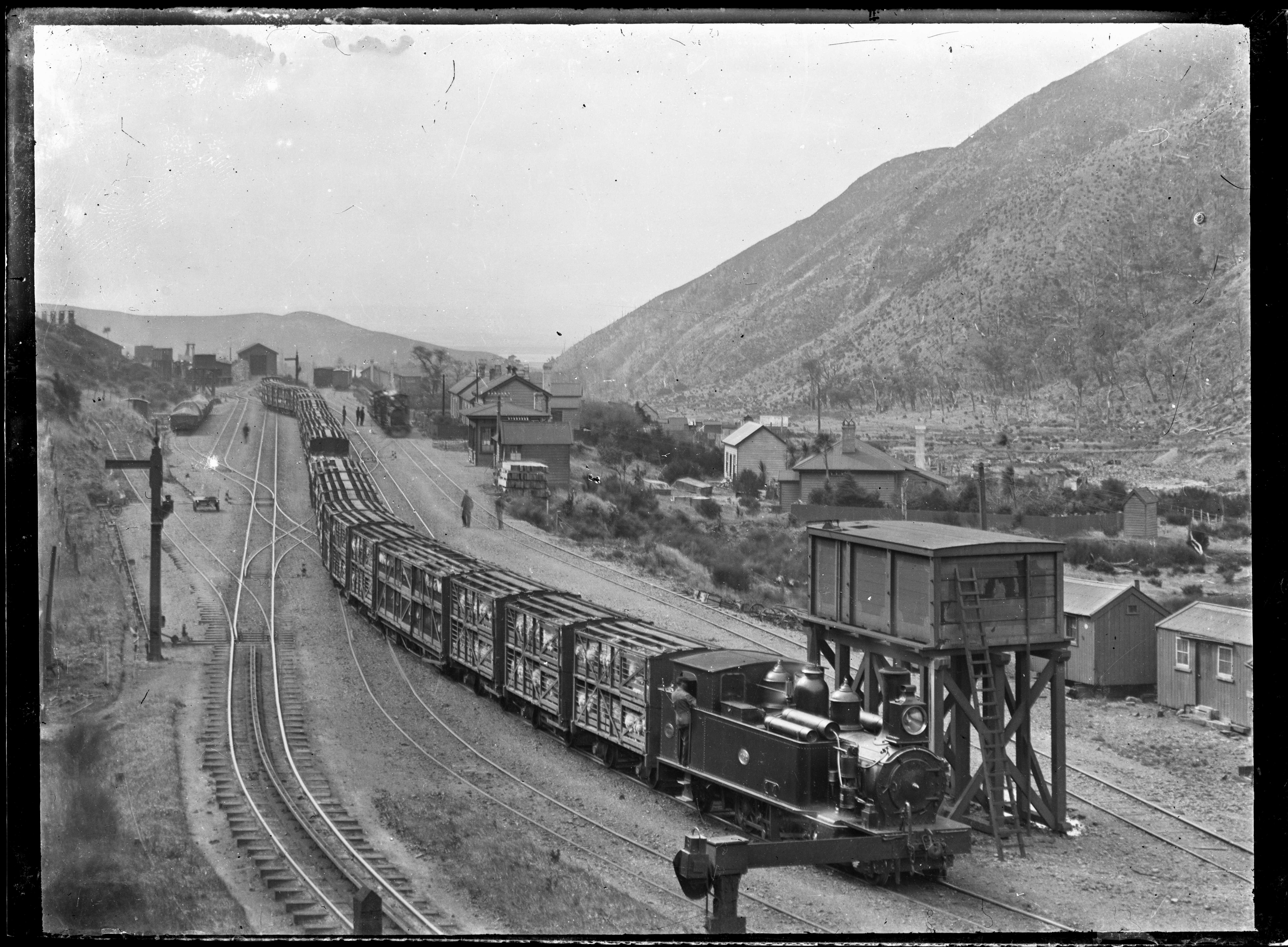 View of Cross Creek railway station yard, with a long goods train carrying sheep. Railway houses are seen on the right of the railway track. Taken during the 1910s by A P Godber.